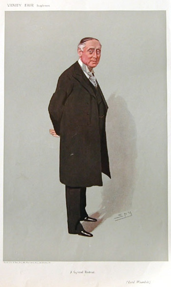 Caricature of Philip Stanhope, 1st Baron Weardale. Caption reads "A Cynical Radical".